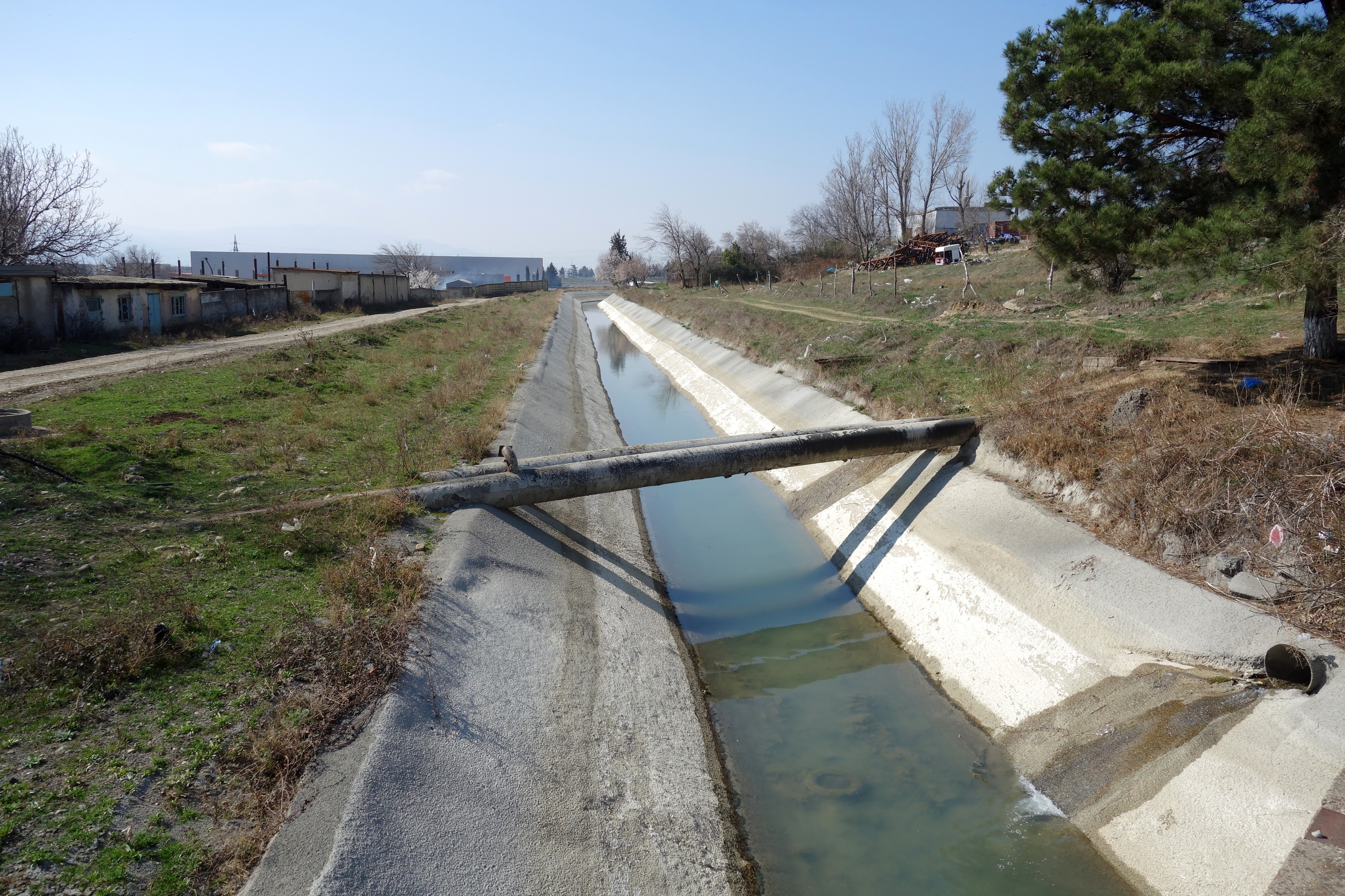 Kvemo Samgori Canal, Lilo, Tbilisi, Georgia